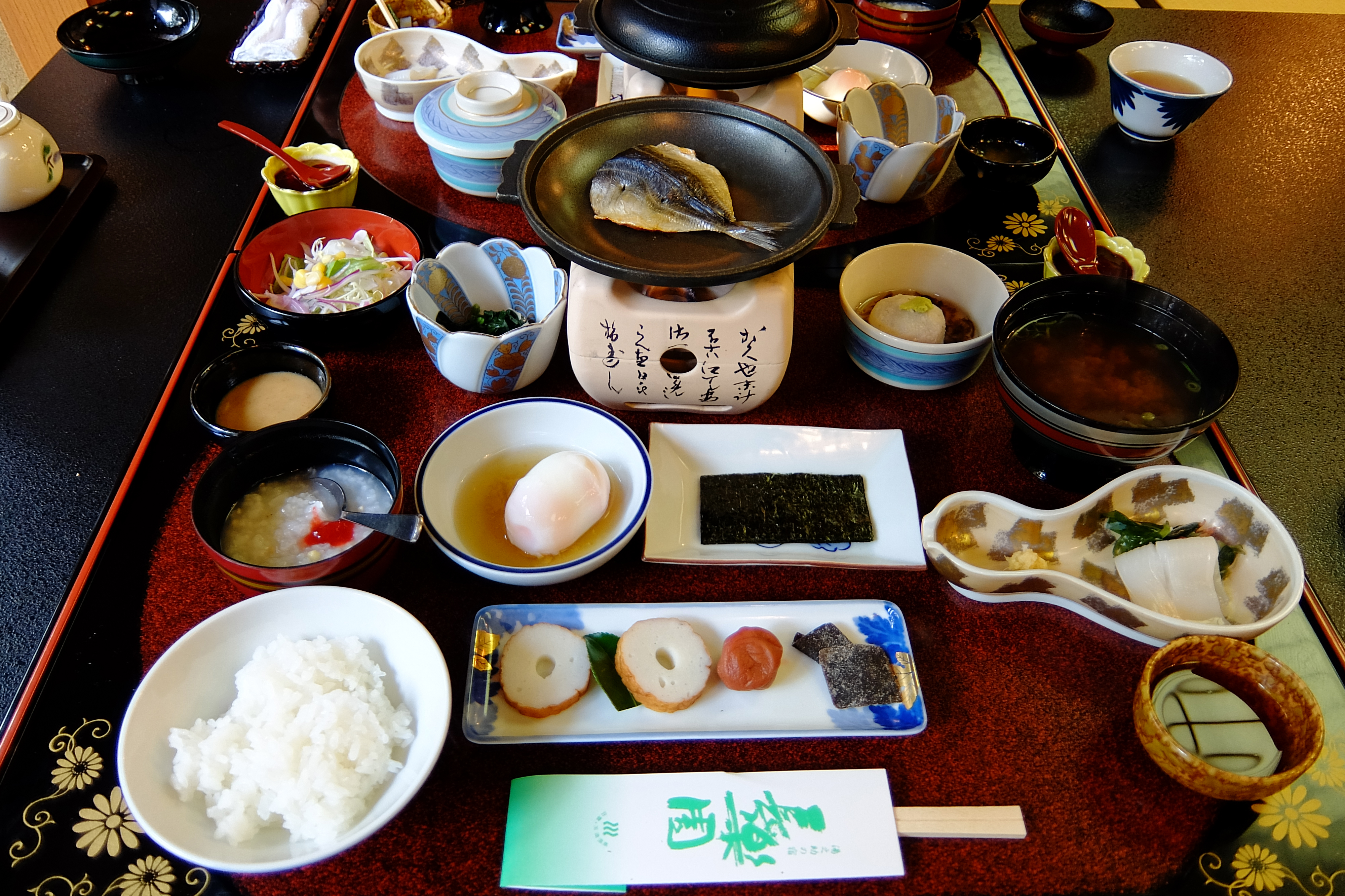 At ryokan "Chorakuen" in Tamatsukuri Onsen, Matsue, Shimane prefecture, Japan.